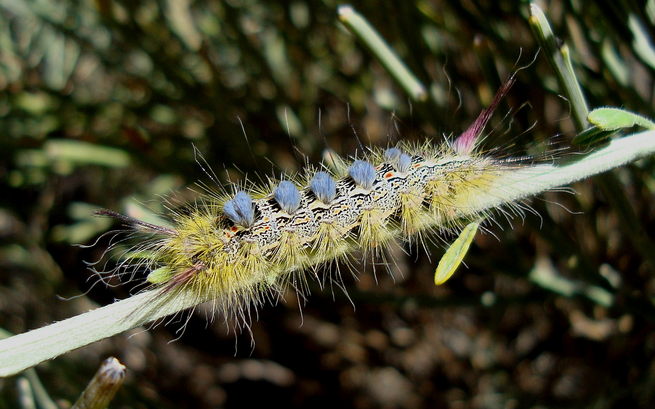 Calliteara fortunata found on Teide, Tenerife probably on Cytisus supranubius